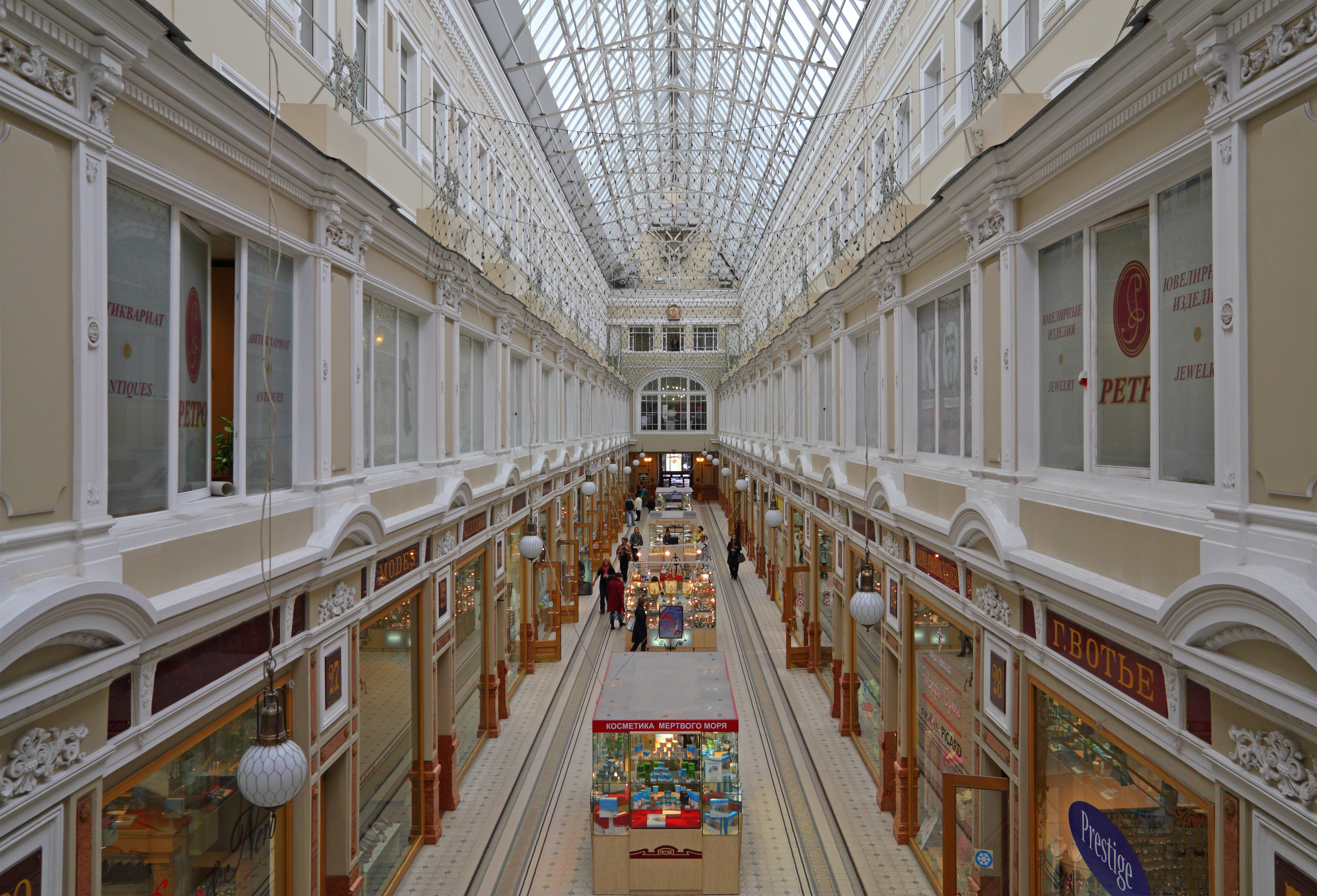 Saint Petersburg, Russia. Inside view of the Passage at Nevsky Avenue.